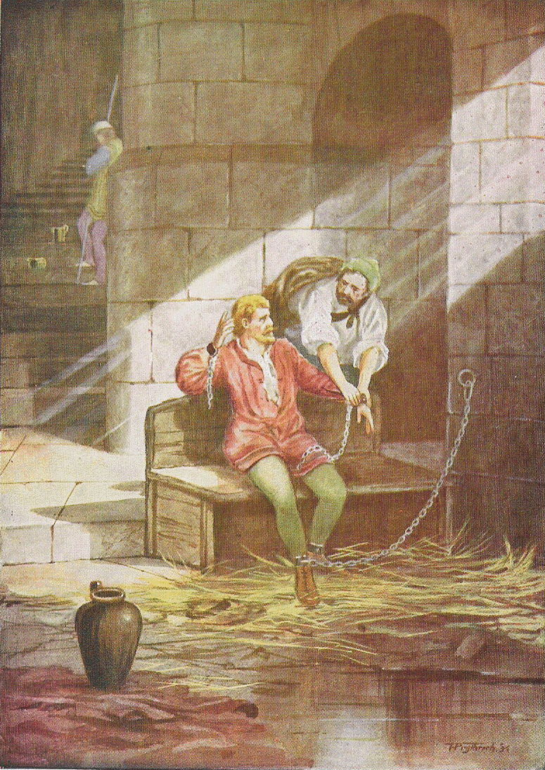 Gruffudd ap Cynan (1055-1137), King of Gwynedd and Wales, being freed from imprisonment by the Norman lord Hugh d'Avranches in Chester, England, by Cynwrig Hir. Painting by T. Prytherch (1900).